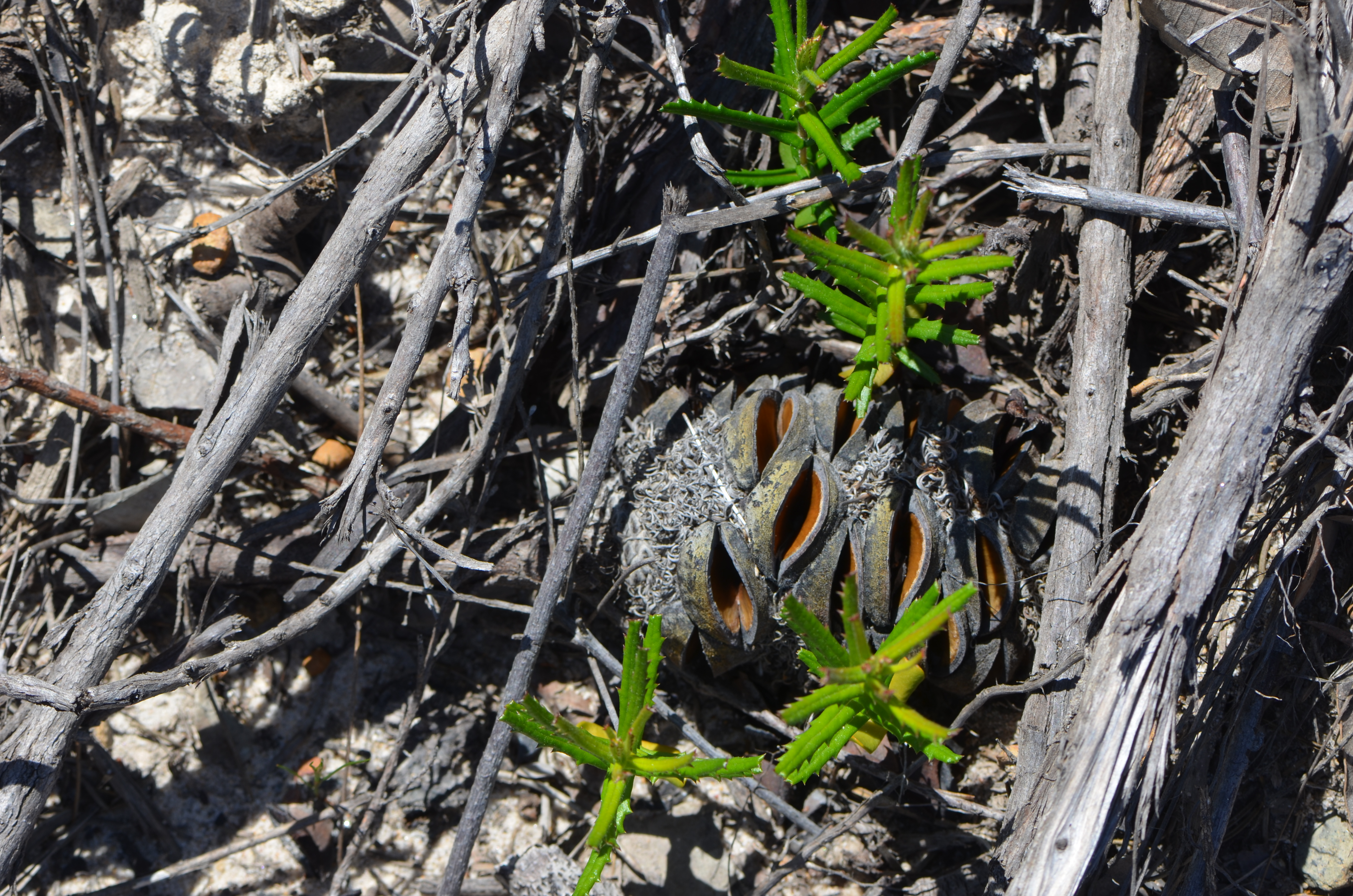 Banksia serrata seedlings, Beacon Hill, Sydney, NSW, Australia